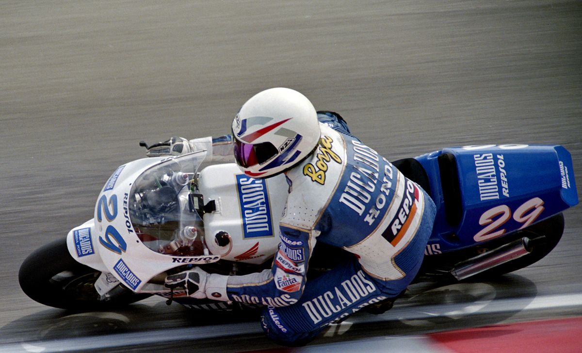 Juan Borja at the 1994 USGP